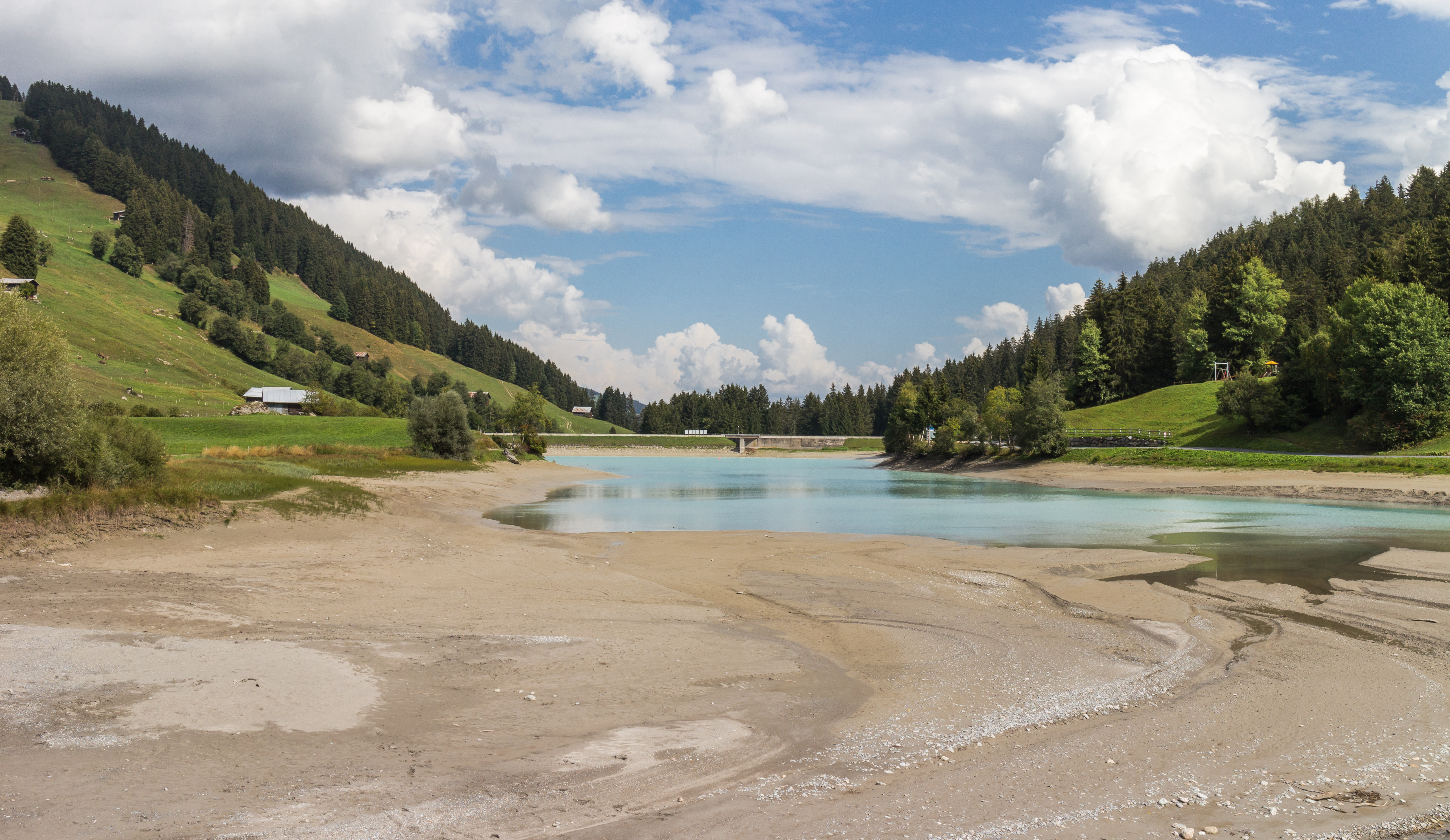 Breil-Brigels. Lag da Breil. Reservoir with currently low water level.